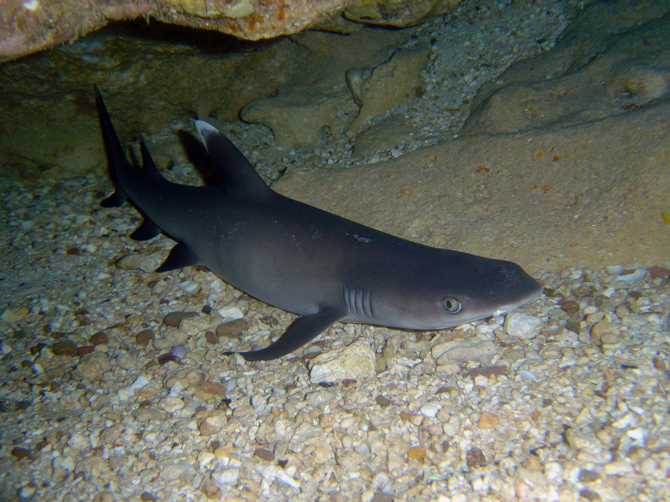 Whitetip reef shark (Triaenodon obesus) in a cave off Saipan.